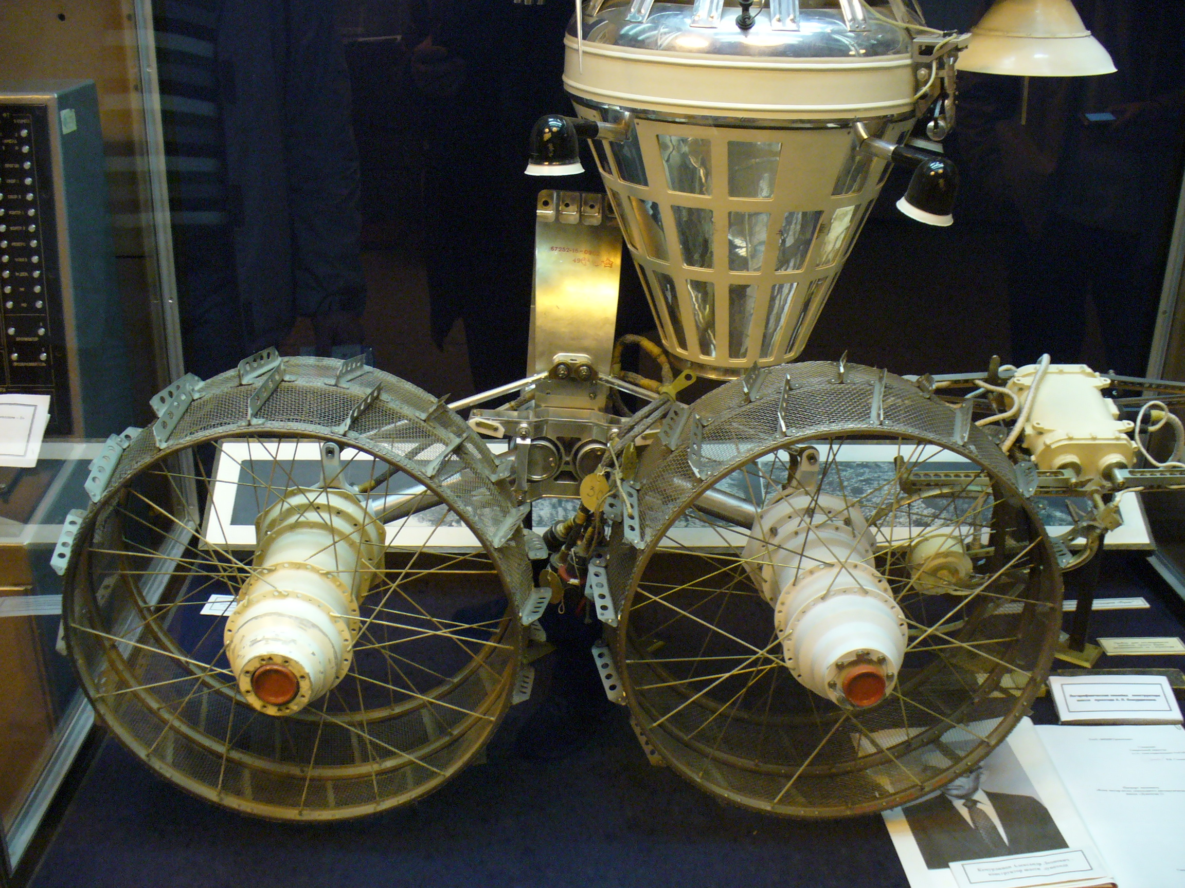 Detail of Lunokchod's, Russian lunar unmanned rover wheels and suspension.